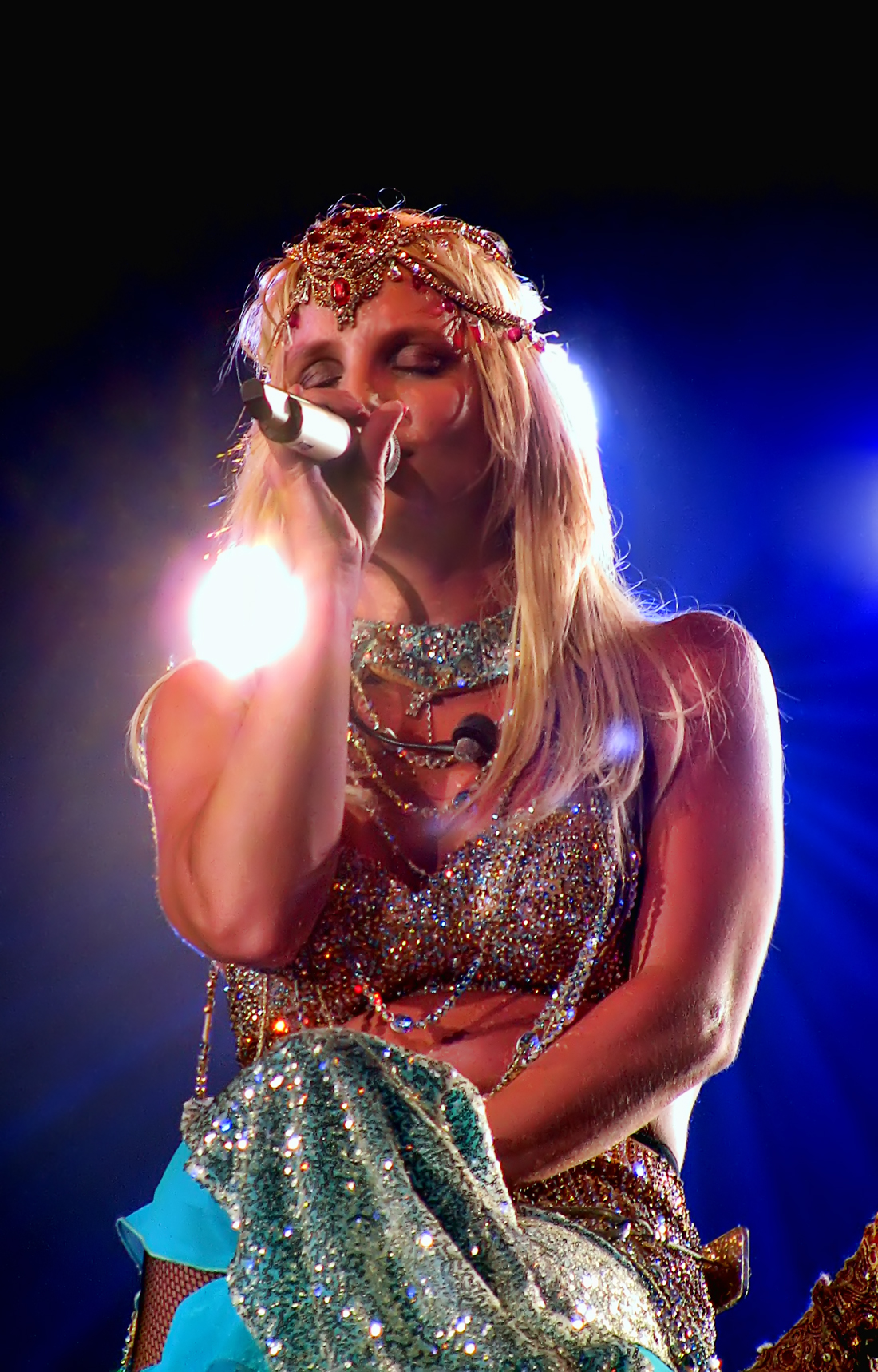 Britney Spears Singin Everytime